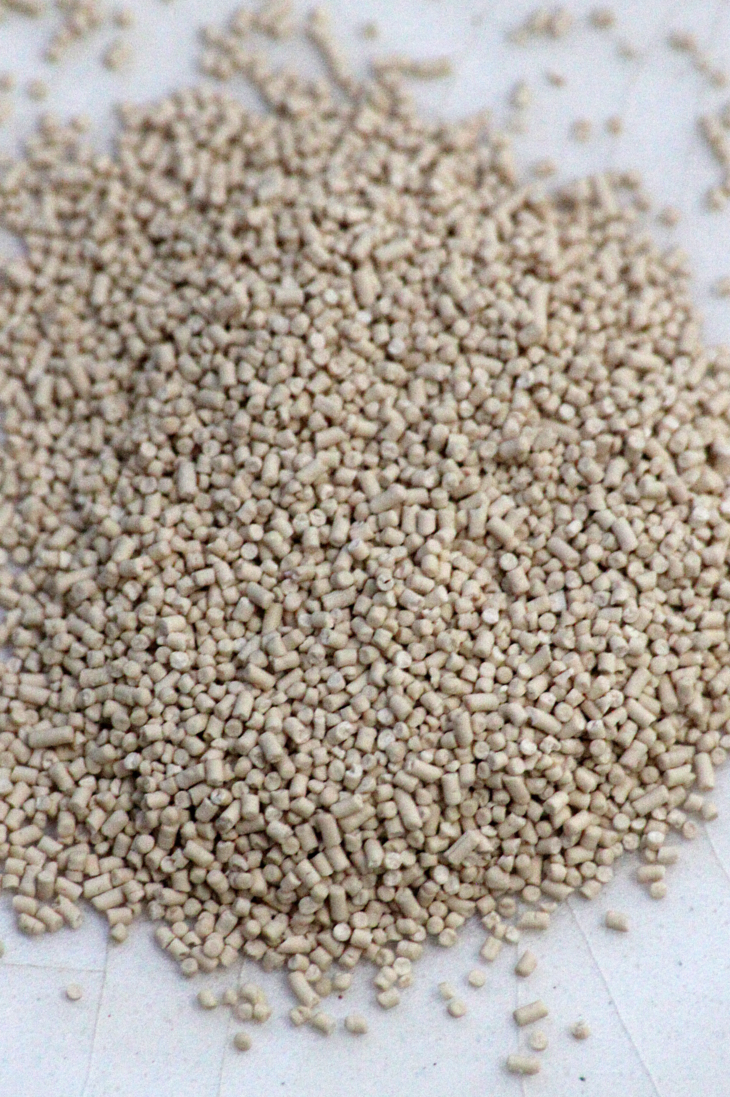 Oenologic yeasts